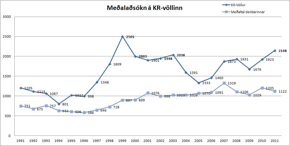 A mean of total spectators at KR-völlur from 1991 to the present day. Numbers in bold indicate a championship year.